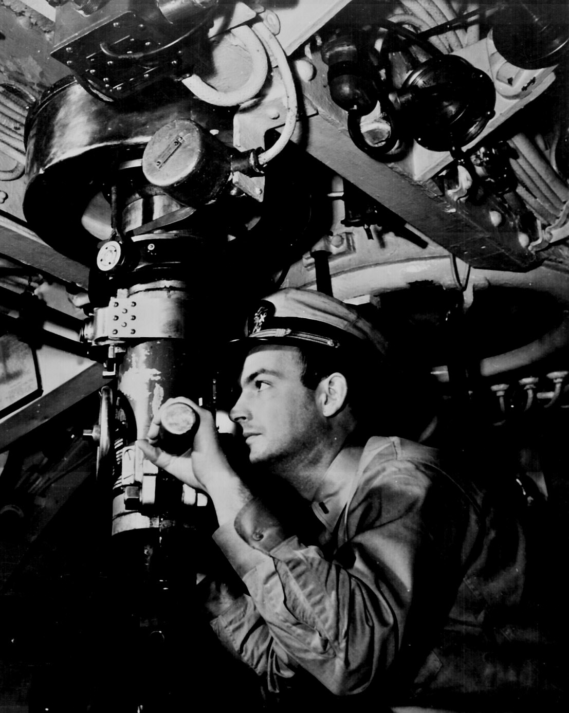 Officer at periscope in control room of submarine. The officer pictured is Captain Raymond W. Alexander, Sr. and the photo was taken in 1942. Note: This officer’s rank insignia is only that of an ensign or Lt (jg). The family of Lt. Clifford H Kern Jr believes this is a photo of him aboard the USS Kingfish. [1]